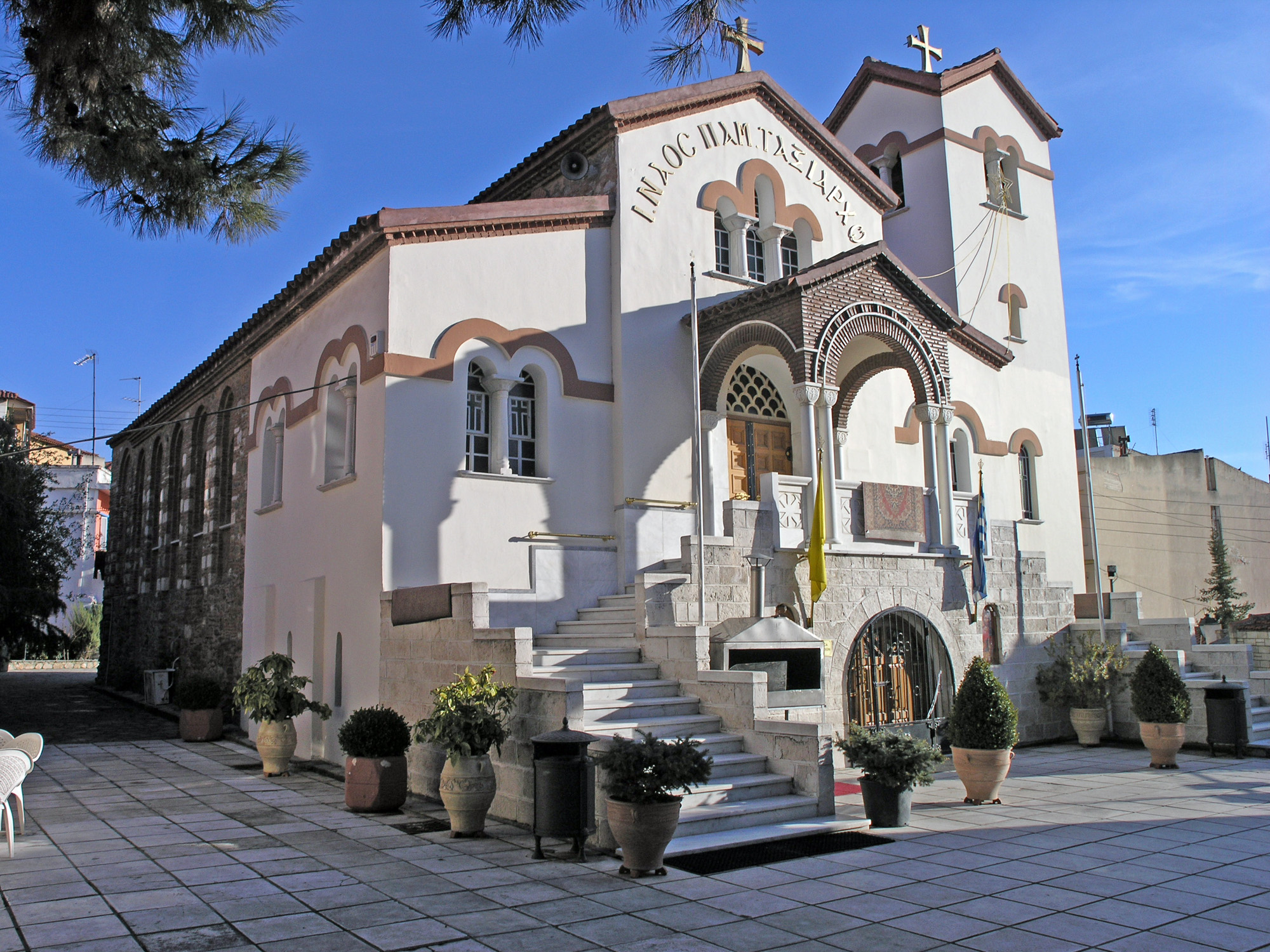 Byzantine church of the Taxiarchs in Thessaloniki : West facade and entrance. Photograph taken by Marsyas 10:28, 27 February 2006 (UTC)